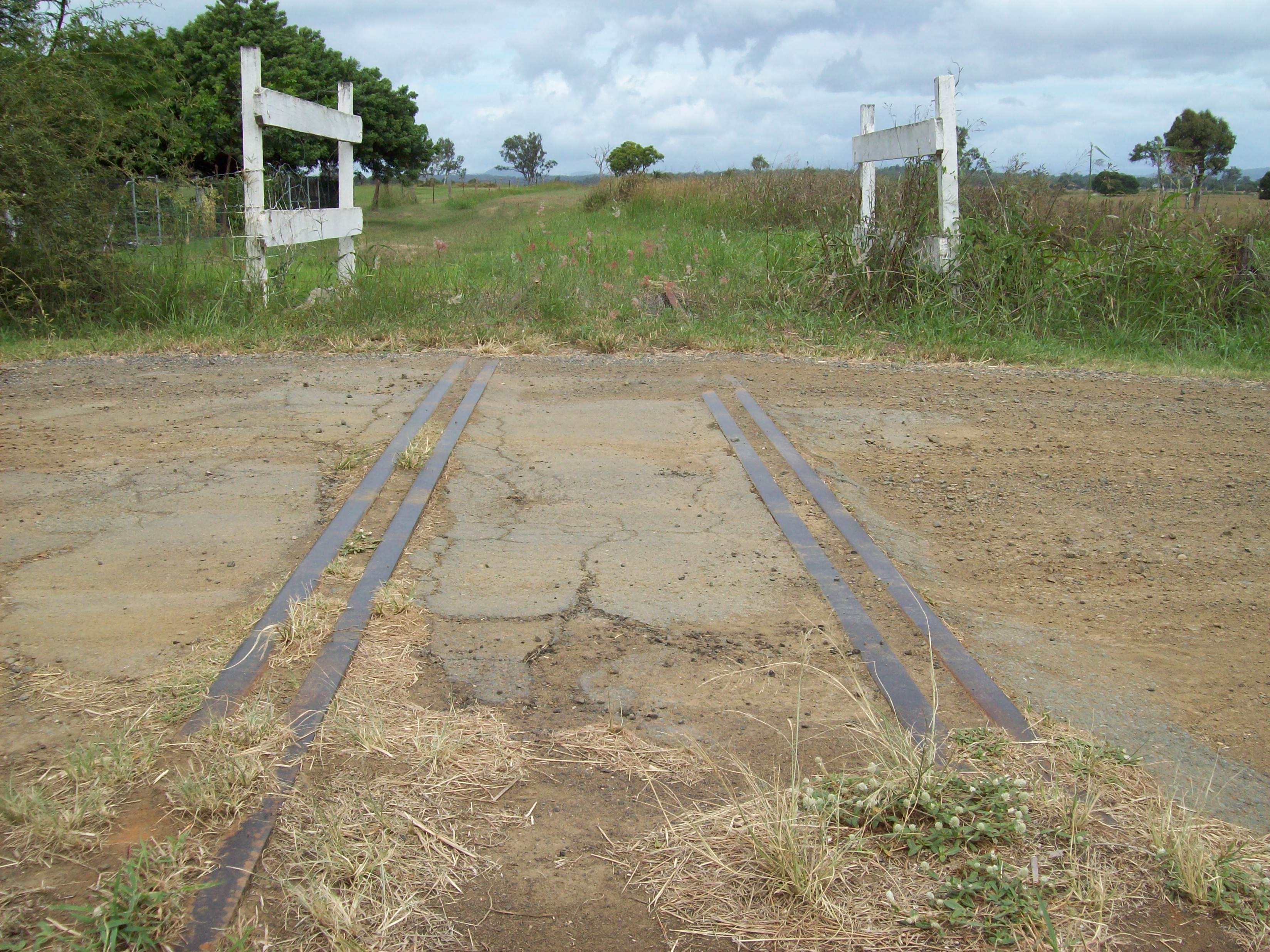 The Beaudesert railway line at Veresdale, with the remains of the Veresdale station platform in the background to the left of the track.